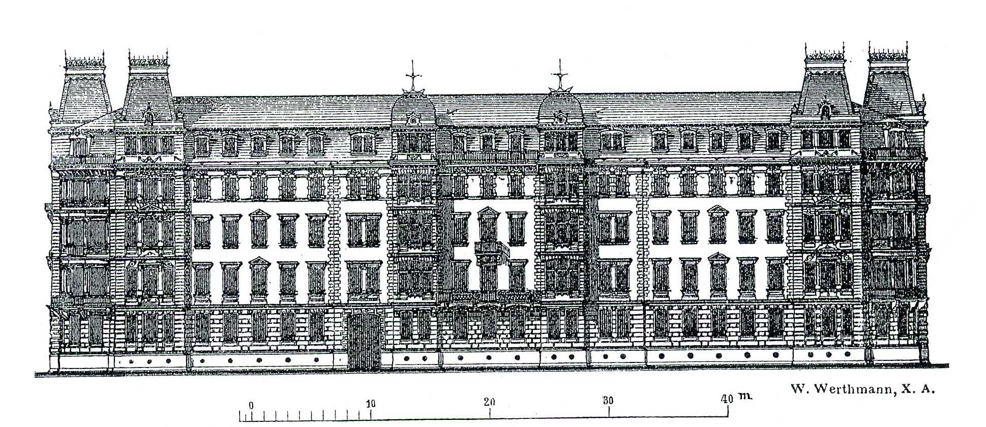 Dresden Sonntag'sche Häusergruppe, Terrassenufer, von Hugo Strunz von 1874 bis 1876 im Stil der Neorenaissance erbaut